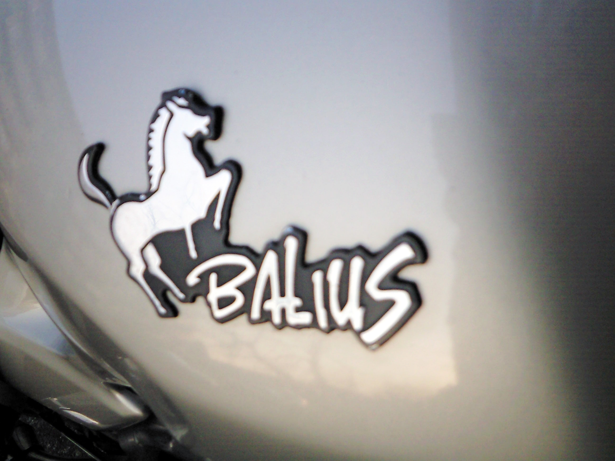 Kawasaki-Balius-emblem